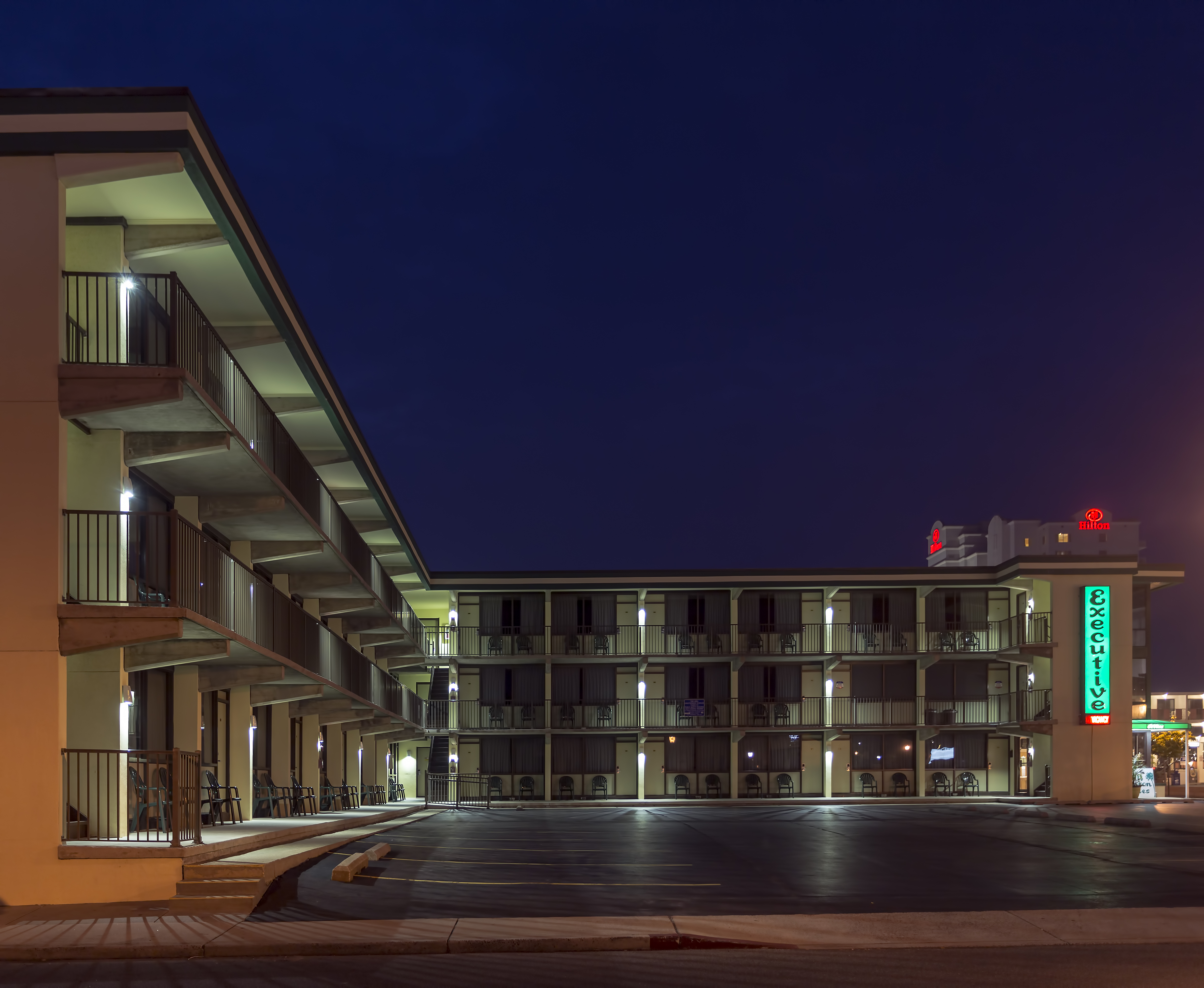 The Executive Motel in the off-season, Ocean City, Maryland, USA